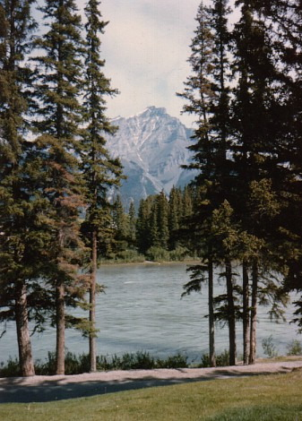 Bow River and Cascade Mountain, Banff National Park, Alberta, Canada